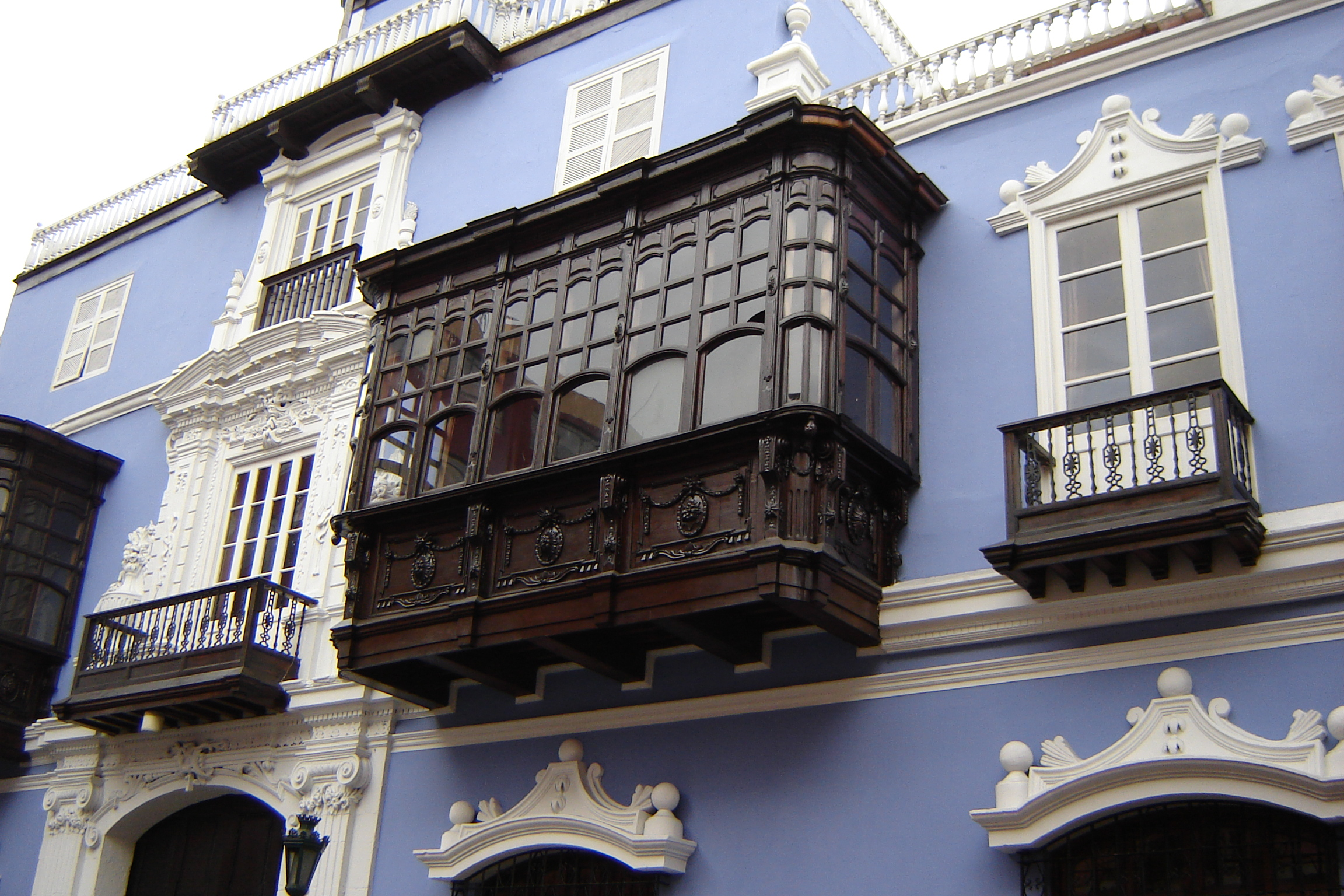 Different types of balconies at the Osambela House in Lima.